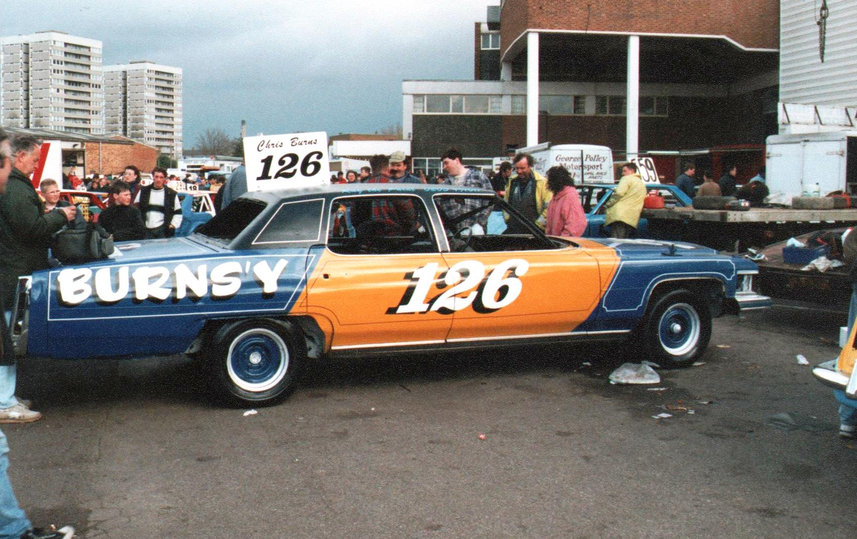 Chris Burns at Wimbledon